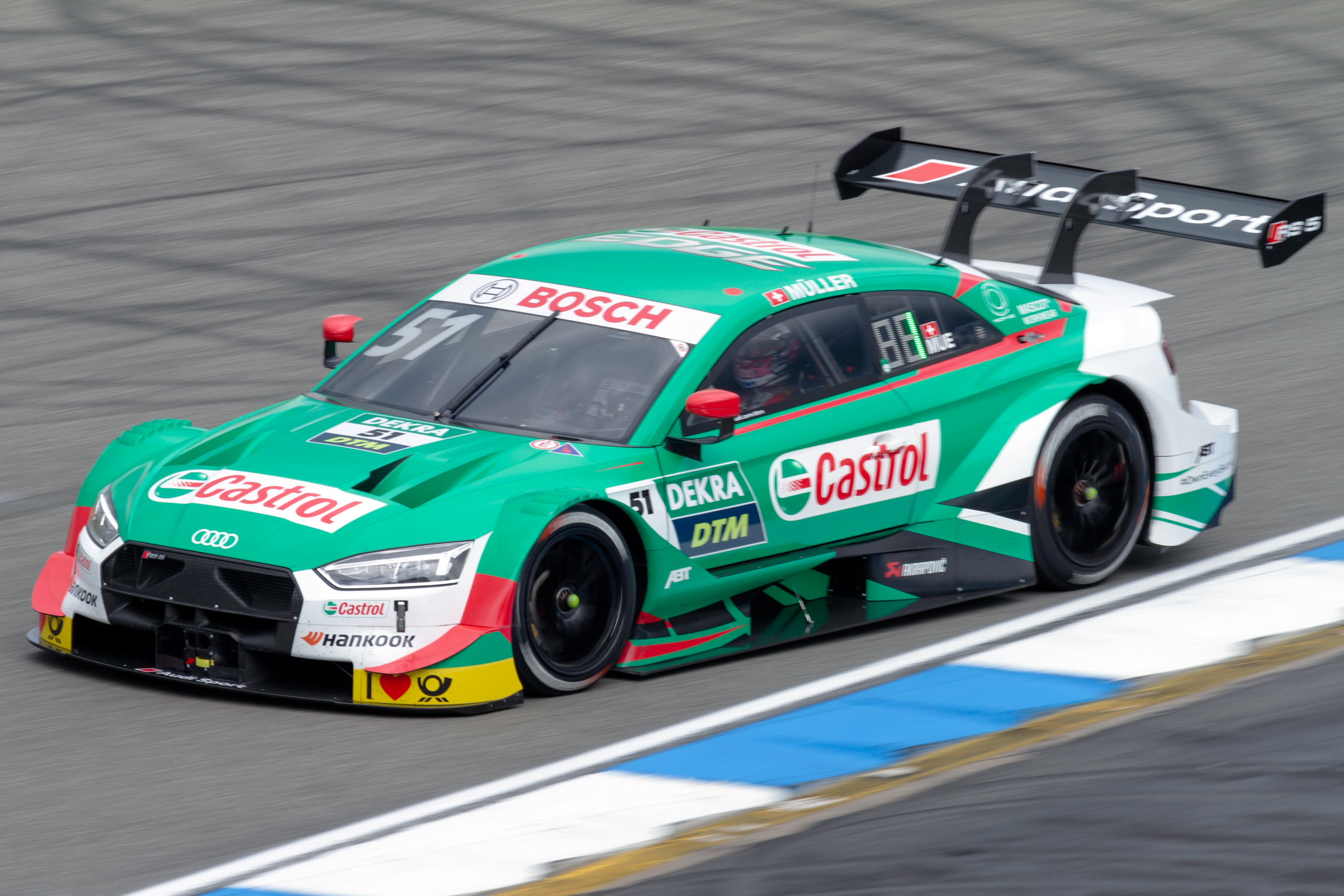 2019 DTM Hockenheimring (May): Audi RS5 Turbo DTM of Nico Müller